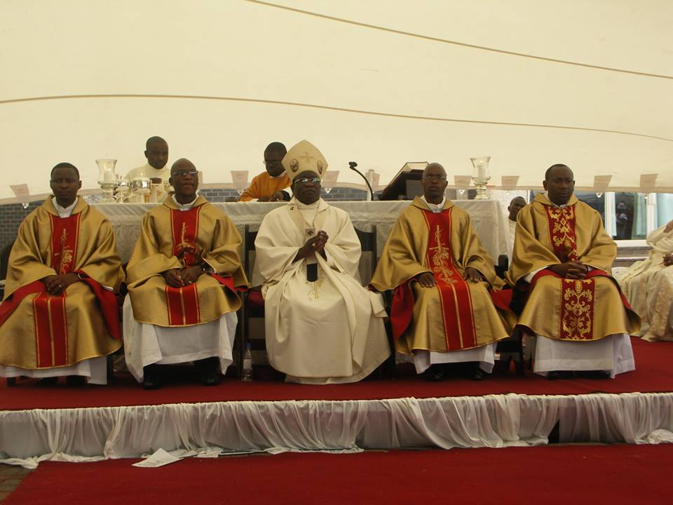 Ordination